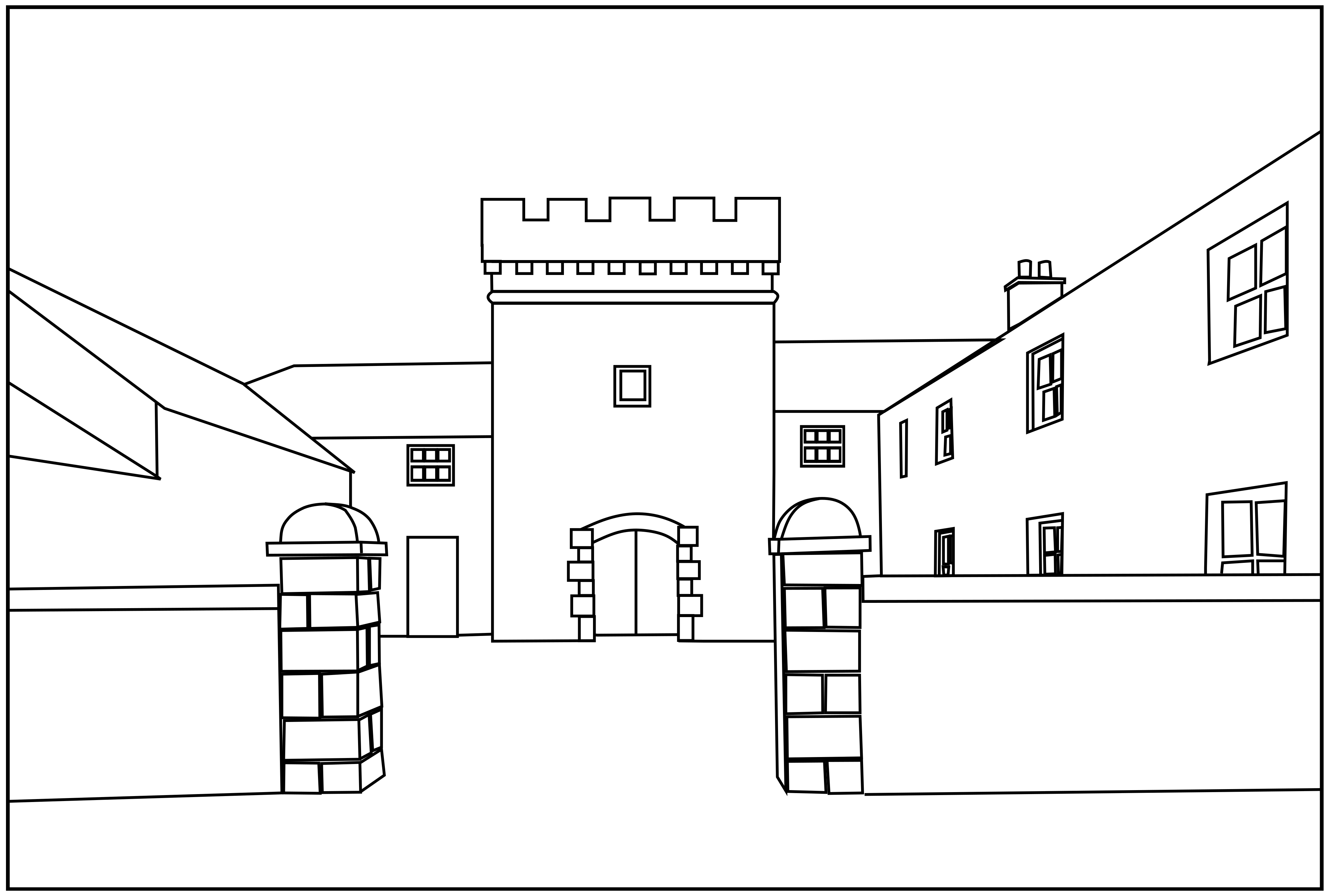 Heaton Castle, Cornhill-on-Tweed, Northumberland.